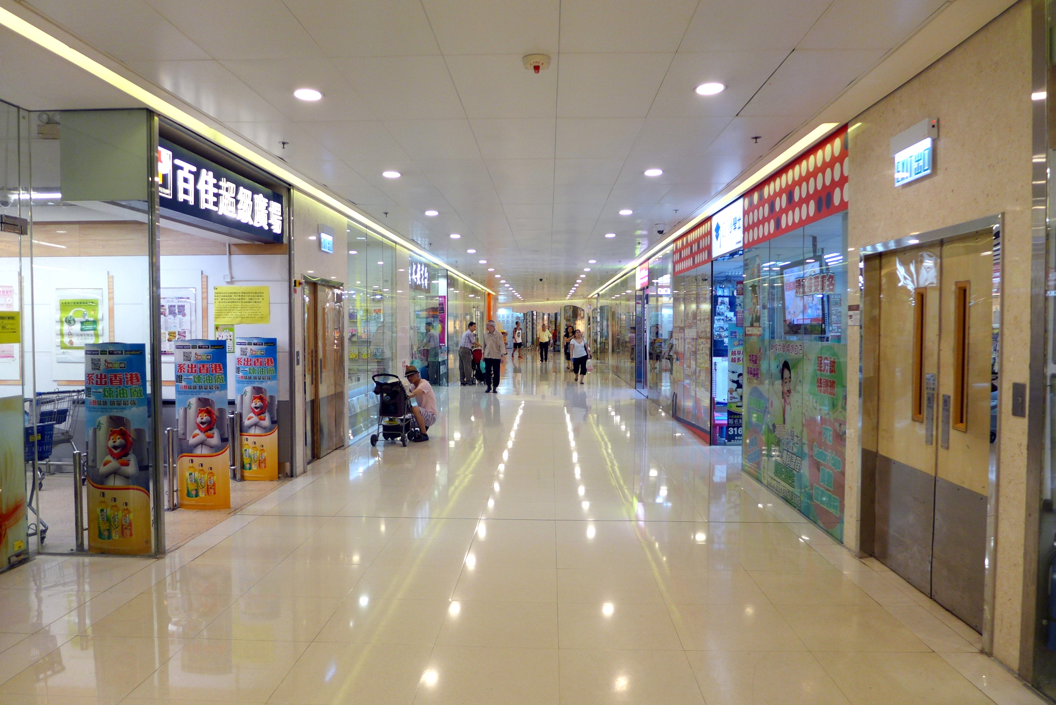 Island Resort Mall Level 1